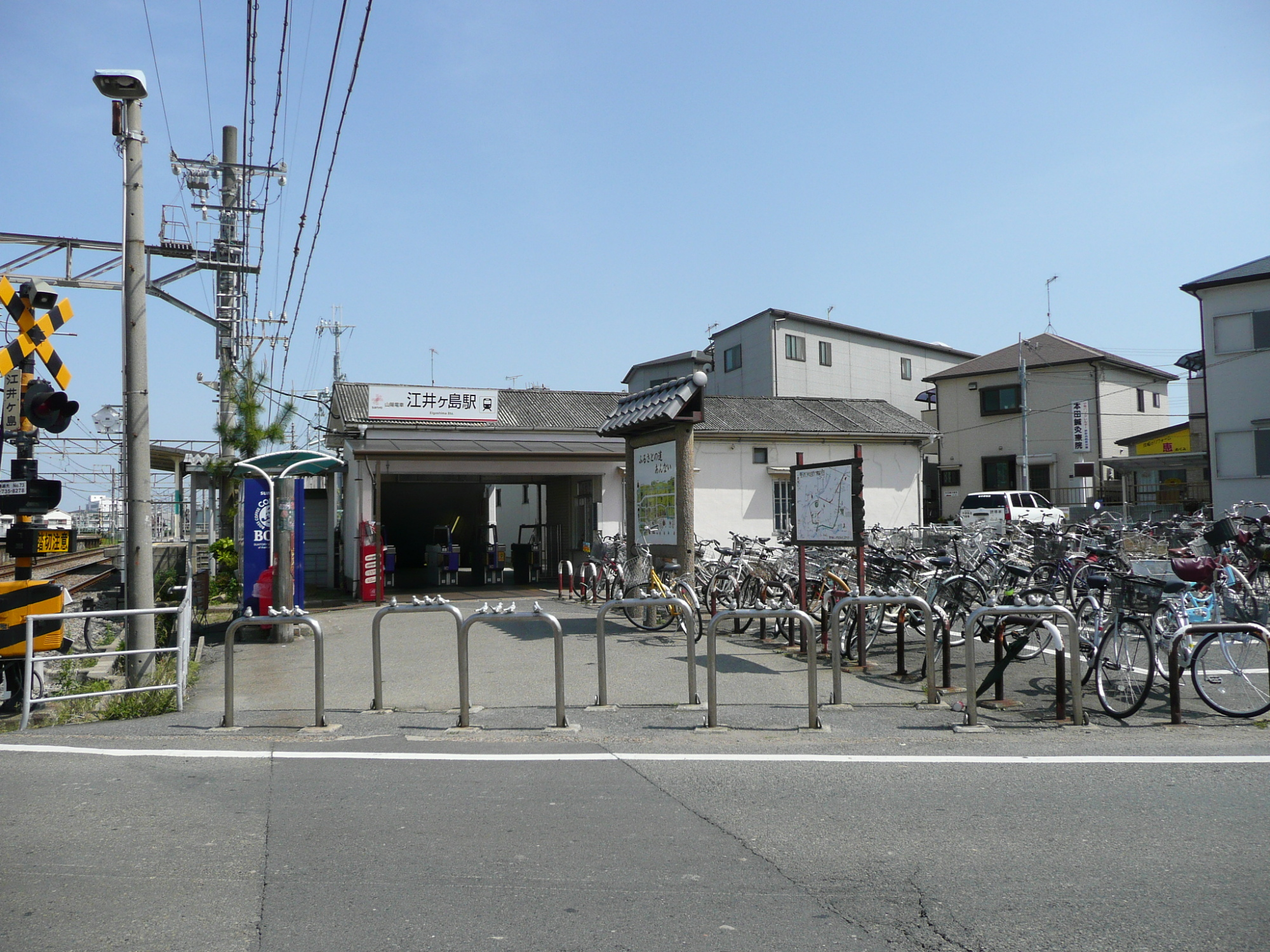 Sanyo Electric Railway,Eigashima Station. / 山陽電気鉄道江井ヶ島駅